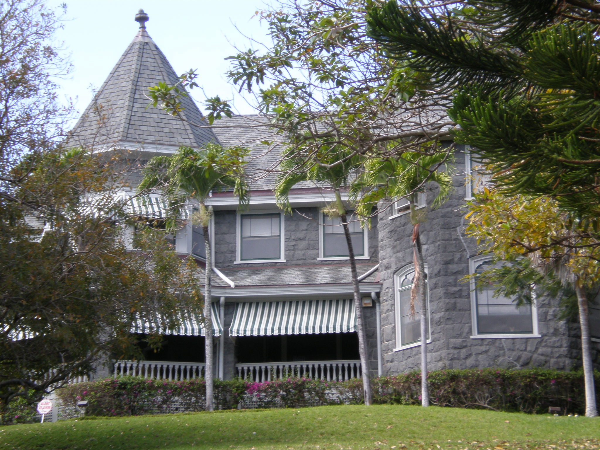 Alfred Hocking House, 1302 Nehoa Street, Honolulu, Hawaii, on National Register of Historic Places, architect C.W. Dickey, built 1904